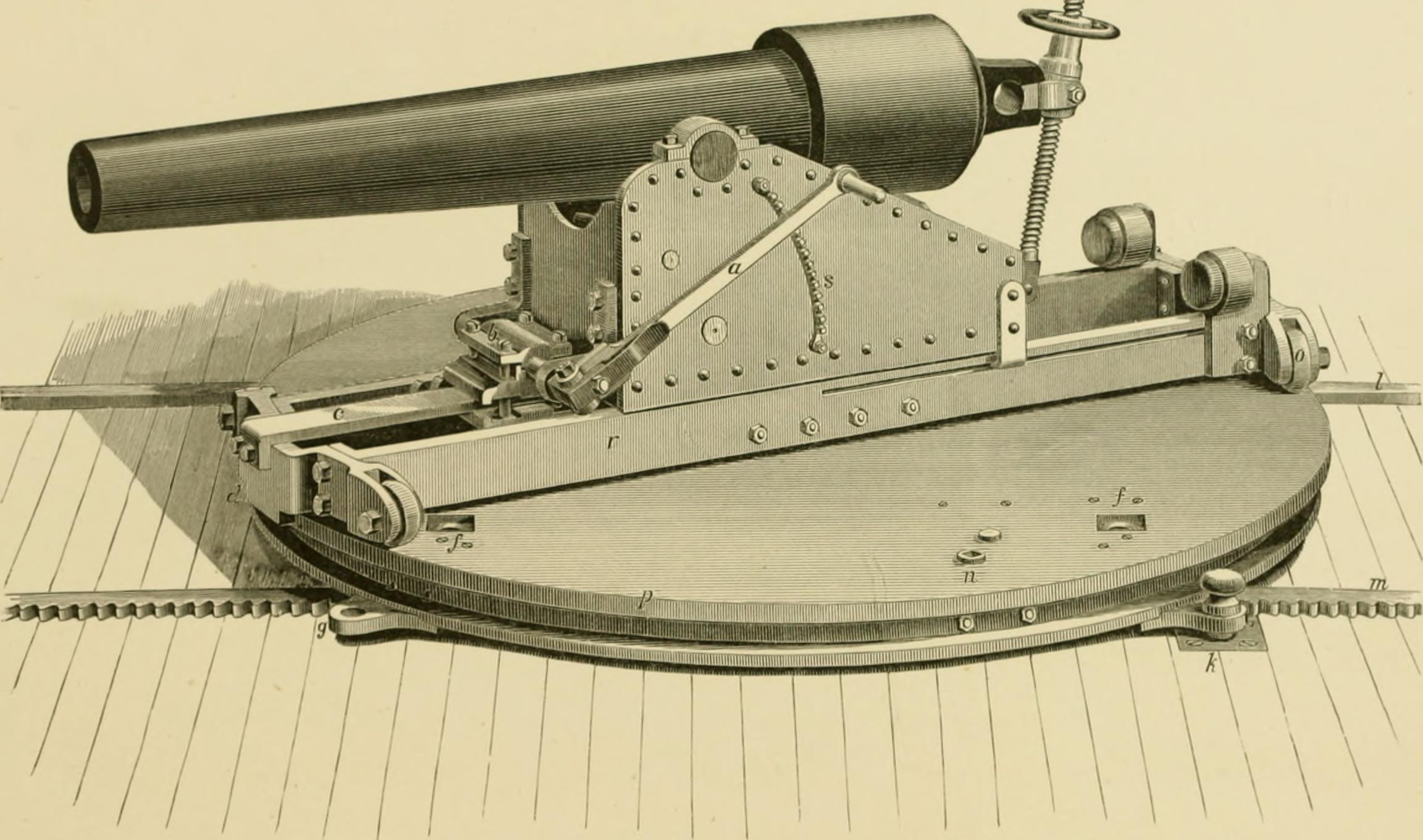 Title: Contributions to the Centennial Exhibition Year: 1876 (1870s) Authors: Ericsson, John, 1803-1889 Subjects: Monitor (Ironclad) Inventions Physical instruments Caloric engines Publisher: New York : Printed for the author at "The Nation" Press Text Appearing Before Image: w Plate .IS. Sek Ciiai; XXXVIJL Text Appearing After Image: Rotary Gun-Carriage and Transit Platform applied to the Spanish Gunboat Tornado. Designed by John Ericcson, built at New York 1873